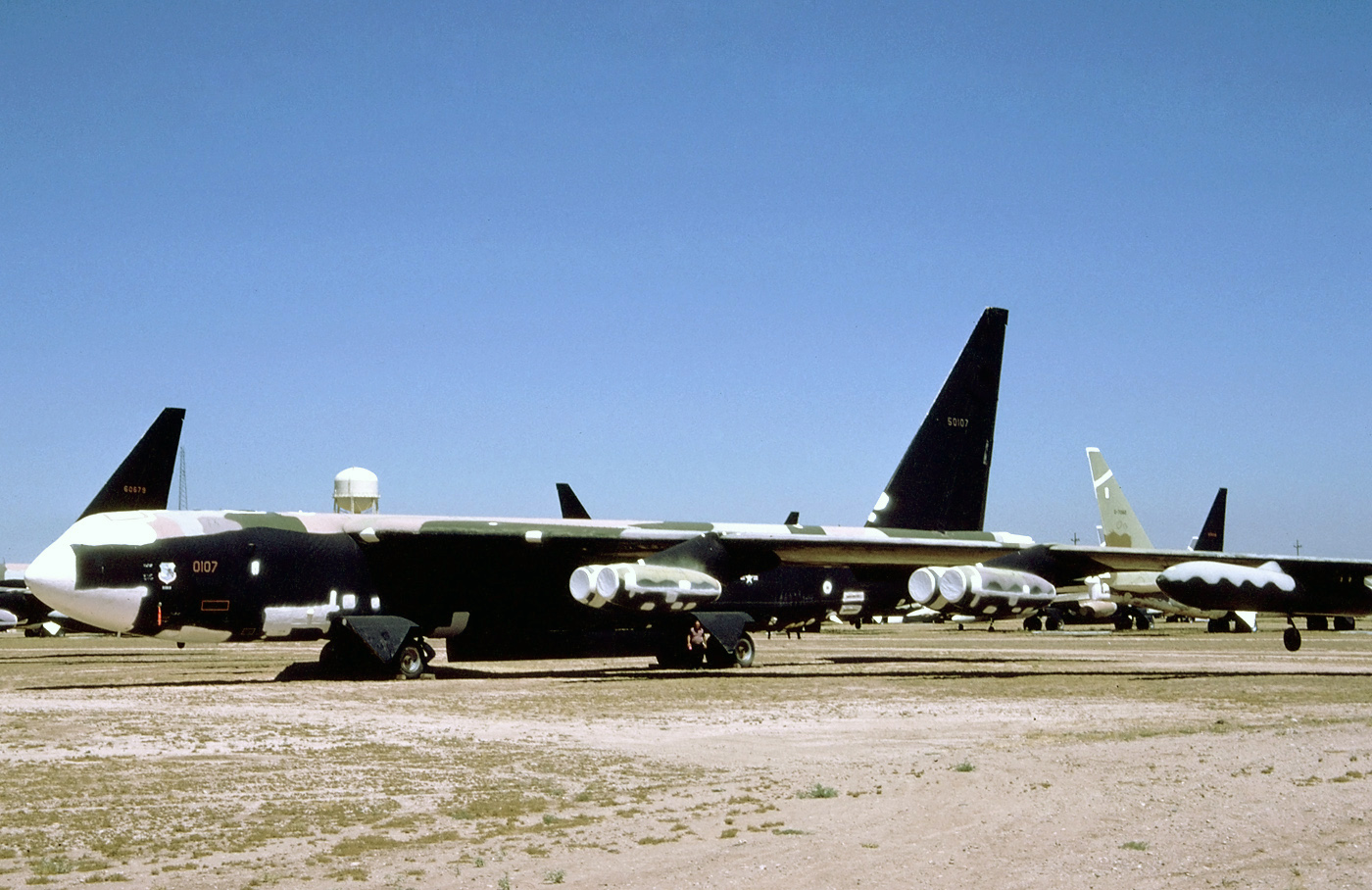 AMARC, June 1988. Just one of numerous B-52s in the Arizona desert. 55-0107 was broken up in 1993.